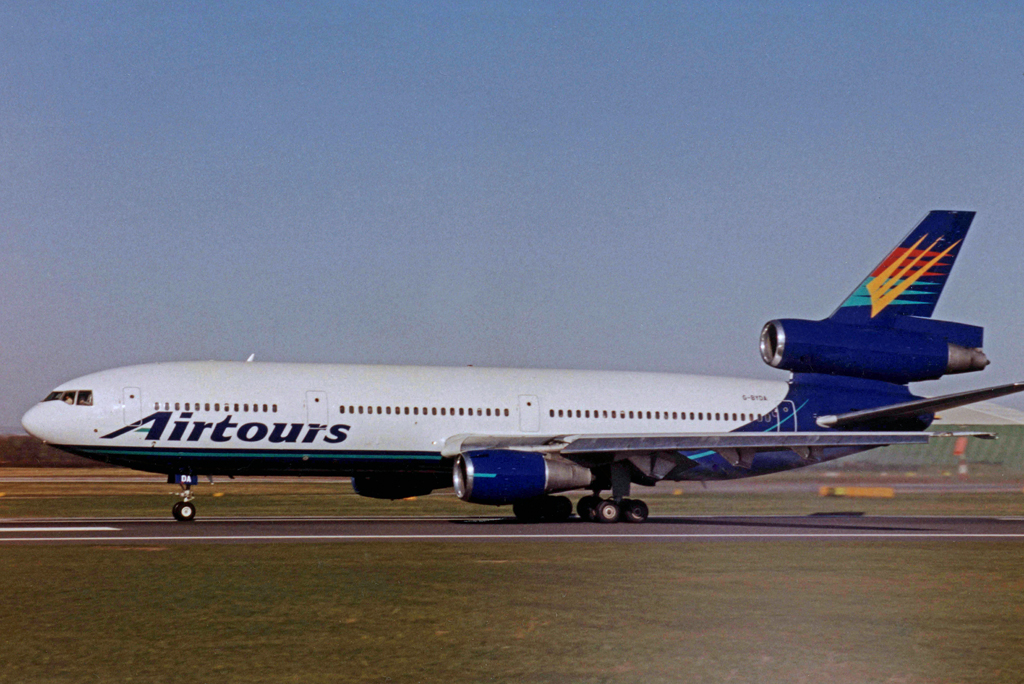 Douglas DC-10-30 G-BYDA of Airtours International at Manchester Airport in 2001